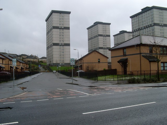 Westercommon Road flats and new housing estate in Possil Park From Stronend Street.